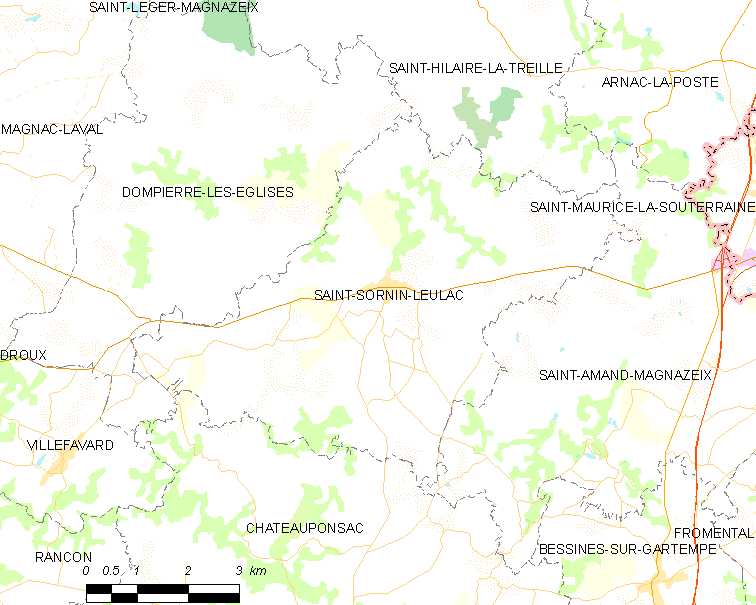 Map of French municipality Saint-Sornin-Leulac